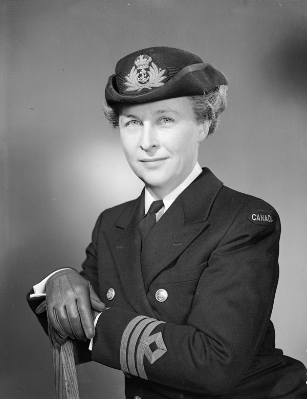 Adelaide Sinclair as Director of the Women's Royal Canadian Navy Service during World War II.